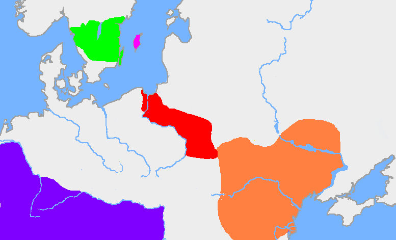 The green area is the traditional extent of Götaland and the pink area is the island of Gotland. The red area is the extent of the Wielbark culture in the early 3rd century, and the orange area is the Chernyakhov culture, in the early 4th century. The purple area is the Roman Empire. The extent of the Wielbark culture is based on Zbigniew Babik: "Najstarsza warstwa nazewnicza na ziemiach polskich" Cracow 2001. The extent of the Chernyakhov culture is based on R. Wołągiewicz (1993), a map drawn by Lars Östlin, in Kaliff's Gothic Connections. Contacts between eastern Scandinavia and the southern Baltic coast 1000 BC – 500 AD (2001:29)